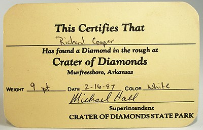 Diamond Locality: Crater of Diamonds State Park (Arkansas Diamond Corp. Mine; Mauney Mine; Ozark Mine; Prairie Creek Lamproite), Murfreesboro, Pike County, Arkansas, USA (Locality at ) Size: 0.4 x 0.2 x 0.2 cm. A lustrous, gemmy, 0.09 carat, transparent, oval, octahedral, white diamond from Crater of Diamonds State Park, Arkansas. The crystal was found by Richard Cooper in February, 1997 and comes with a Park card. A highly representative diamond from this well-known US locale.